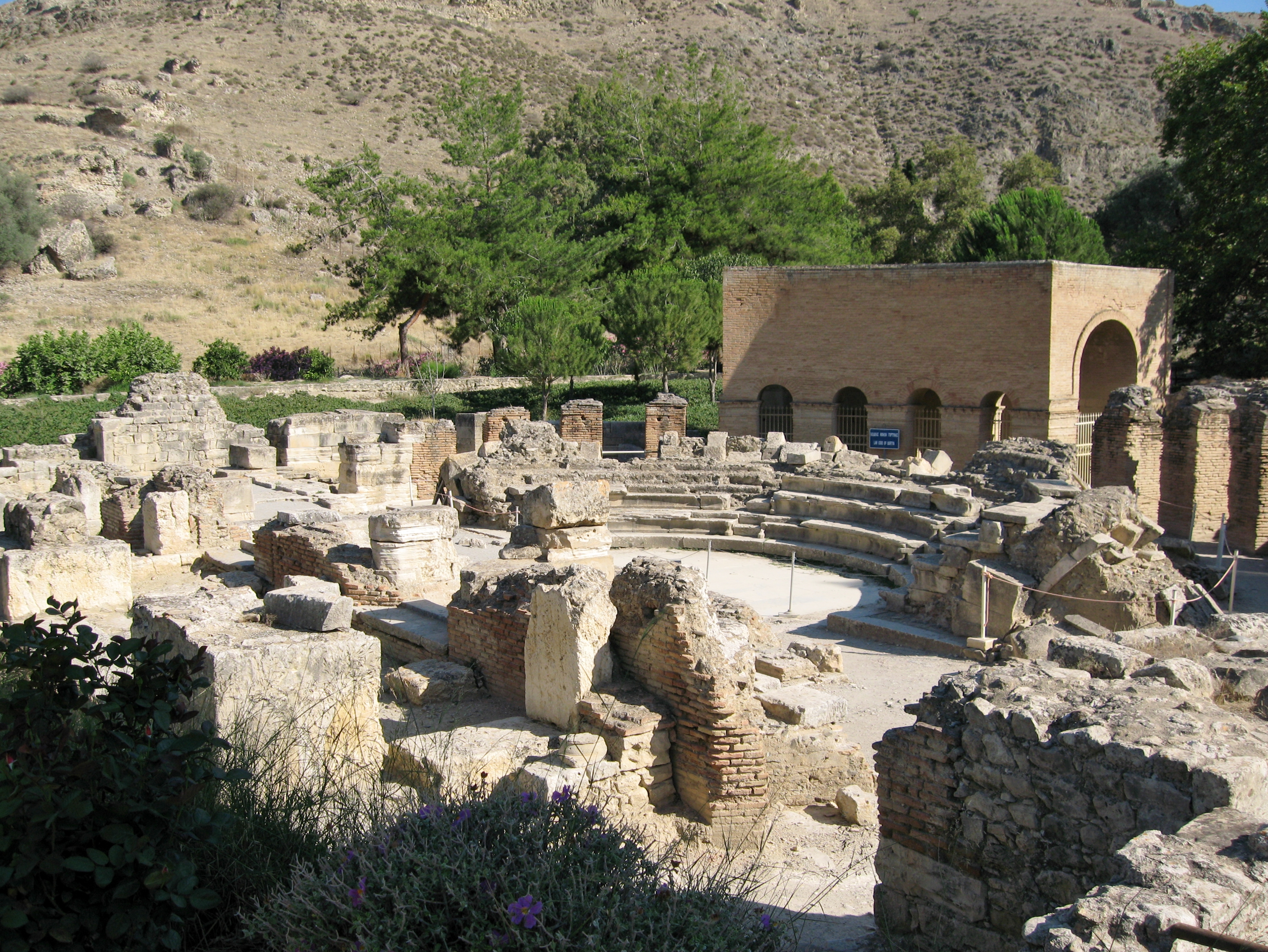 Gortyn, Crete, Greece